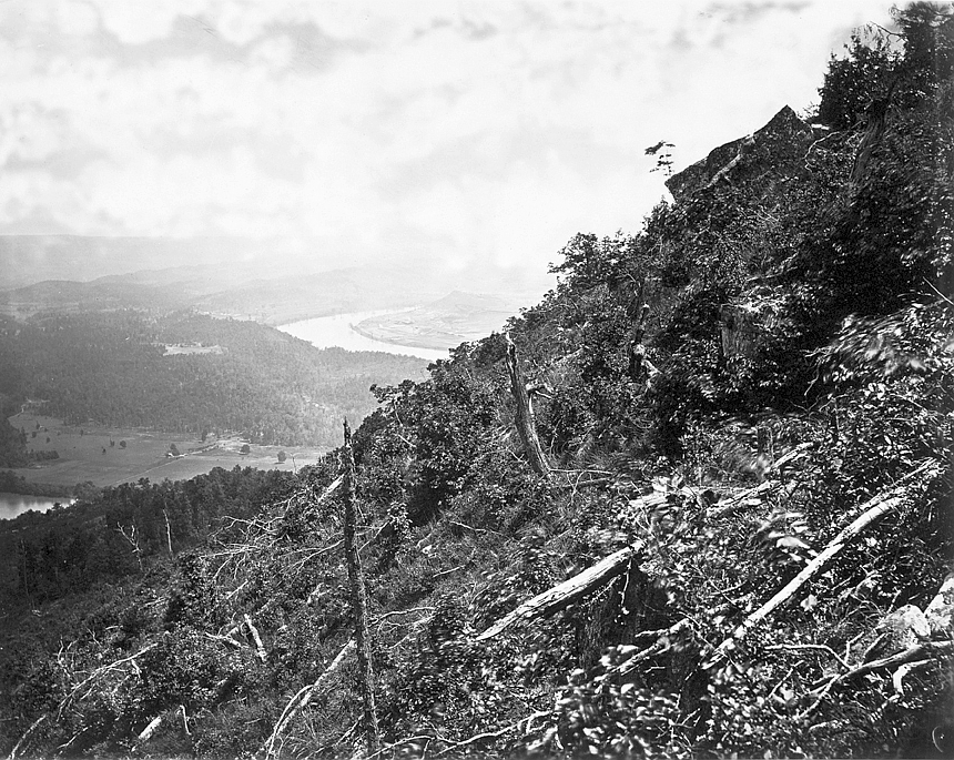 Accession Number: 1979:0022:0033 Maker: Unidentified Title: Battlefield of Lookout Mountain, Tennessee Date: ca. 1865 Medium: albumen print Dimensions: 27.0 x 33.9 cm. George Eastman House Collection · ·